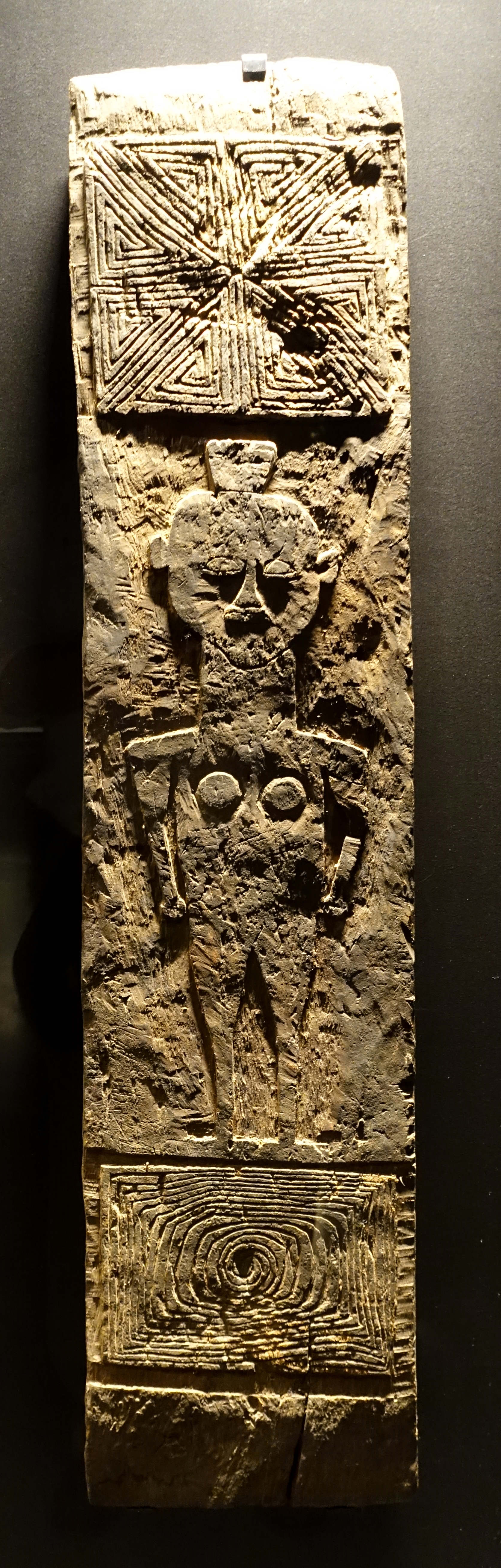 Exhibit in the Museu do Oriente - Lisbon, Portugal. This work is old enough so that it is in the public domain.